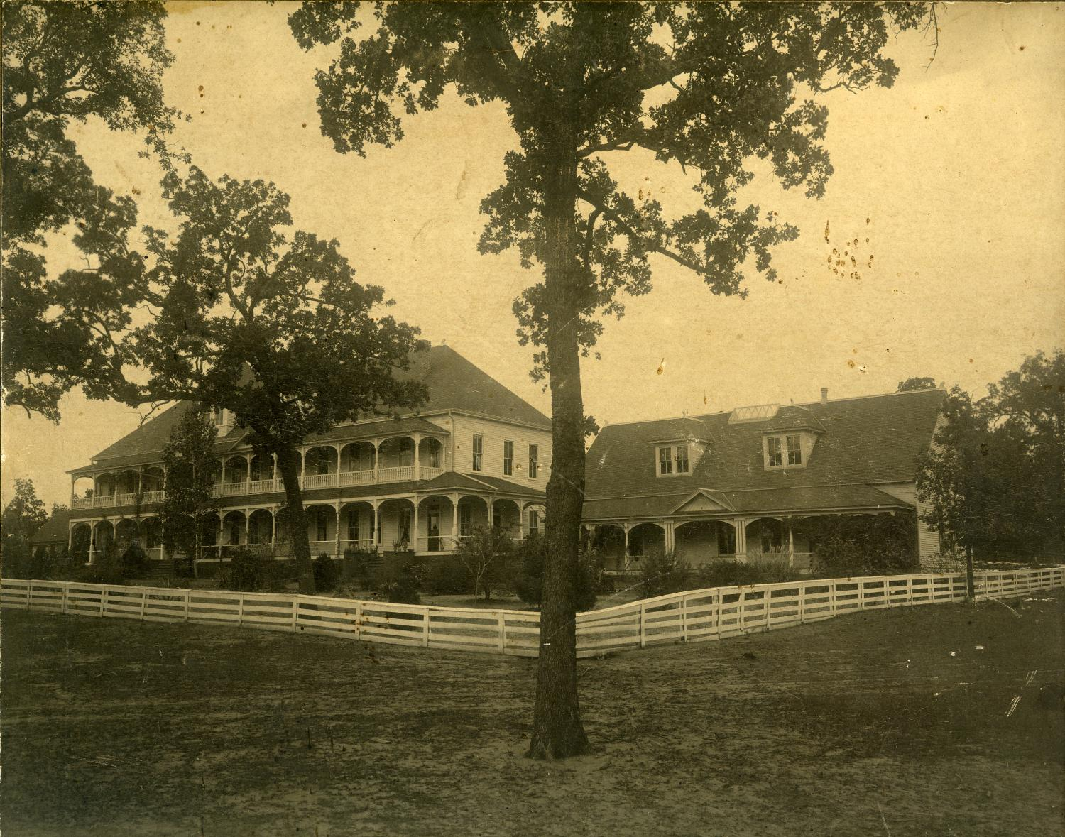 Photograph of Bloomfield Academy school for girls near Achille in Bryan County. Chickasaw Governor Douglas Henry Johnston was a student of the academy, and served as the school superintendent from 1884 to 1897. According to information related to the photograph, "Professor Henshaw taught there 18 years," and the school burned in January 1914. Photo may have been taken by George W. Moore, Denison, Texas. If Moore is the photographer, the photo was taken before March 2, 1911. Moore died on this date. Source: Moore?. Chickasaw Nation's Bloomfield Academy, photograph, Date Unknown; ( accessed July 4, 2019), The Gateway to Oklahoma History, crediting Oklahoma Historical Society.